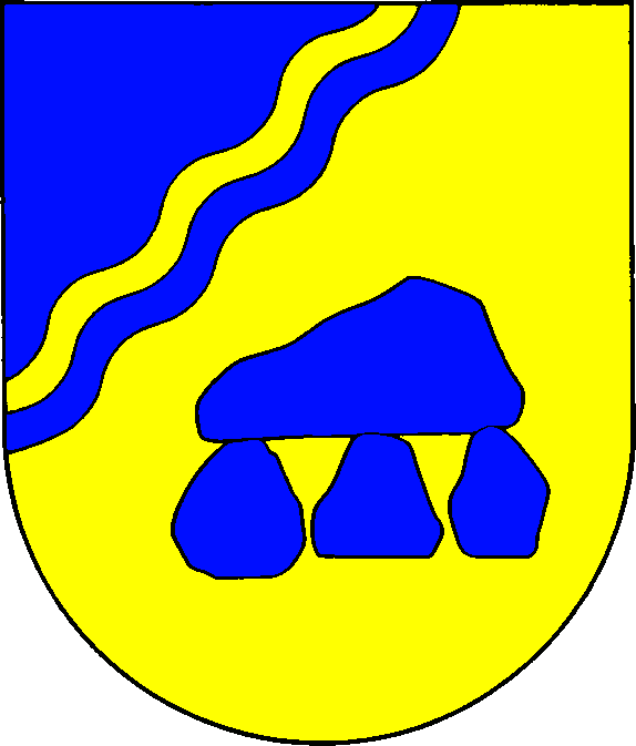 Coat of arms of the municipality Schwedeneck in Schleswig-Holstein, Germany.